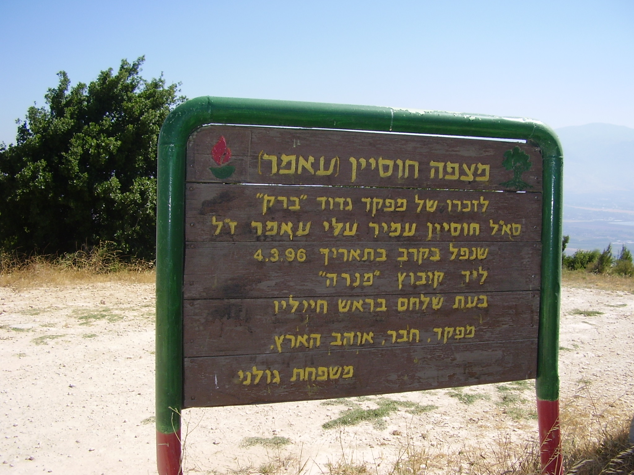 Hussein Amer lookout in Upper Galilee